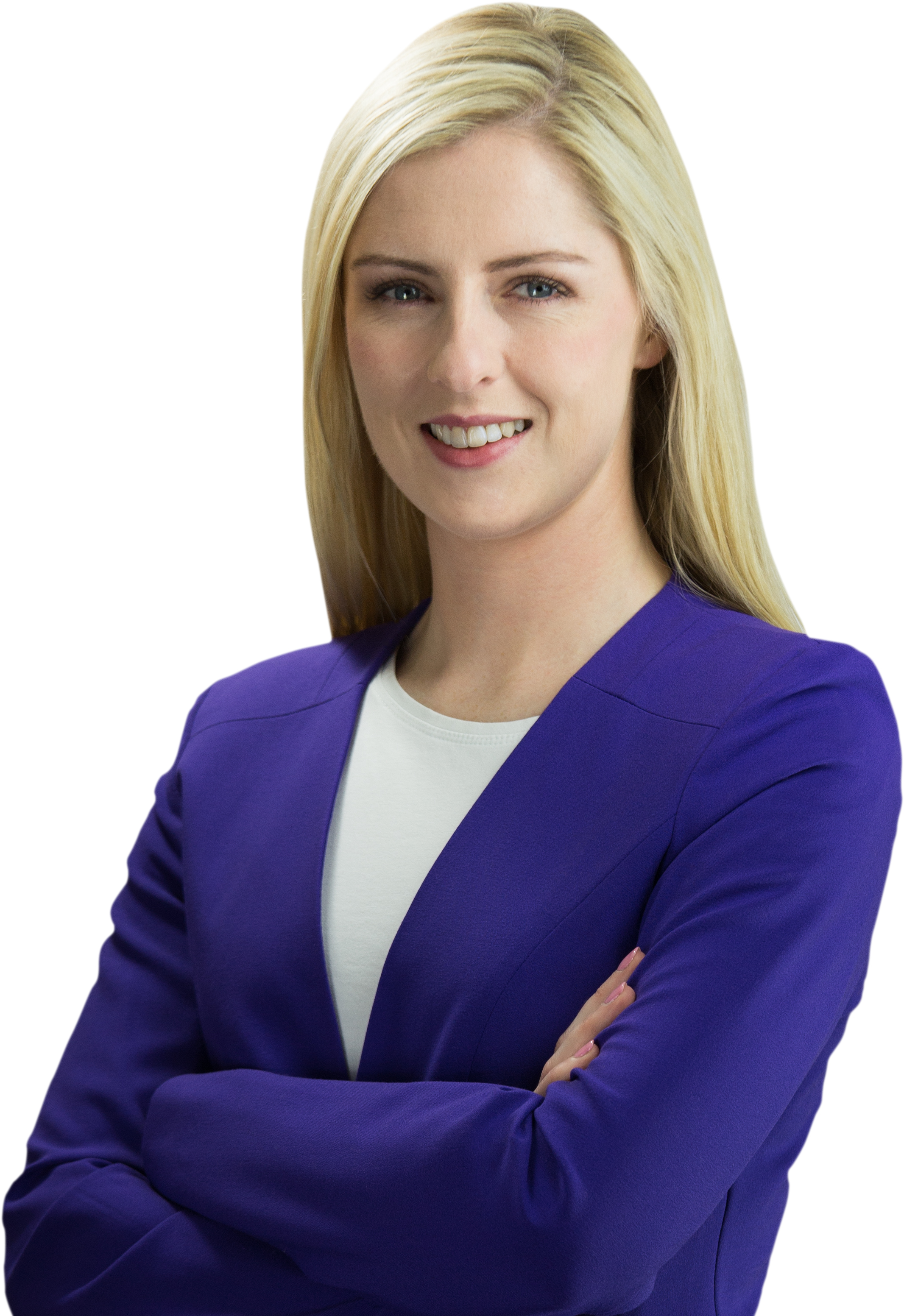 Portrait of Lisa Chambers